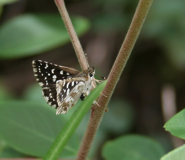 Indian Skipper Spialia galba at Talakona forest, in Chittoor District of Andhra Pradesh, India.